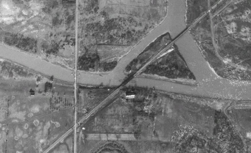 Aerial photo of the Montrose Swing Bridge from 1934. One can load up a more current image in Google Maps and they will see the development that has taken place in the area.